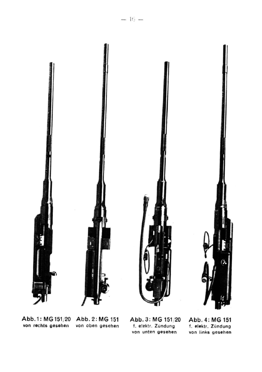 The MG151 and MG151/20 variants with a normal (left) and electric (right) ignition.